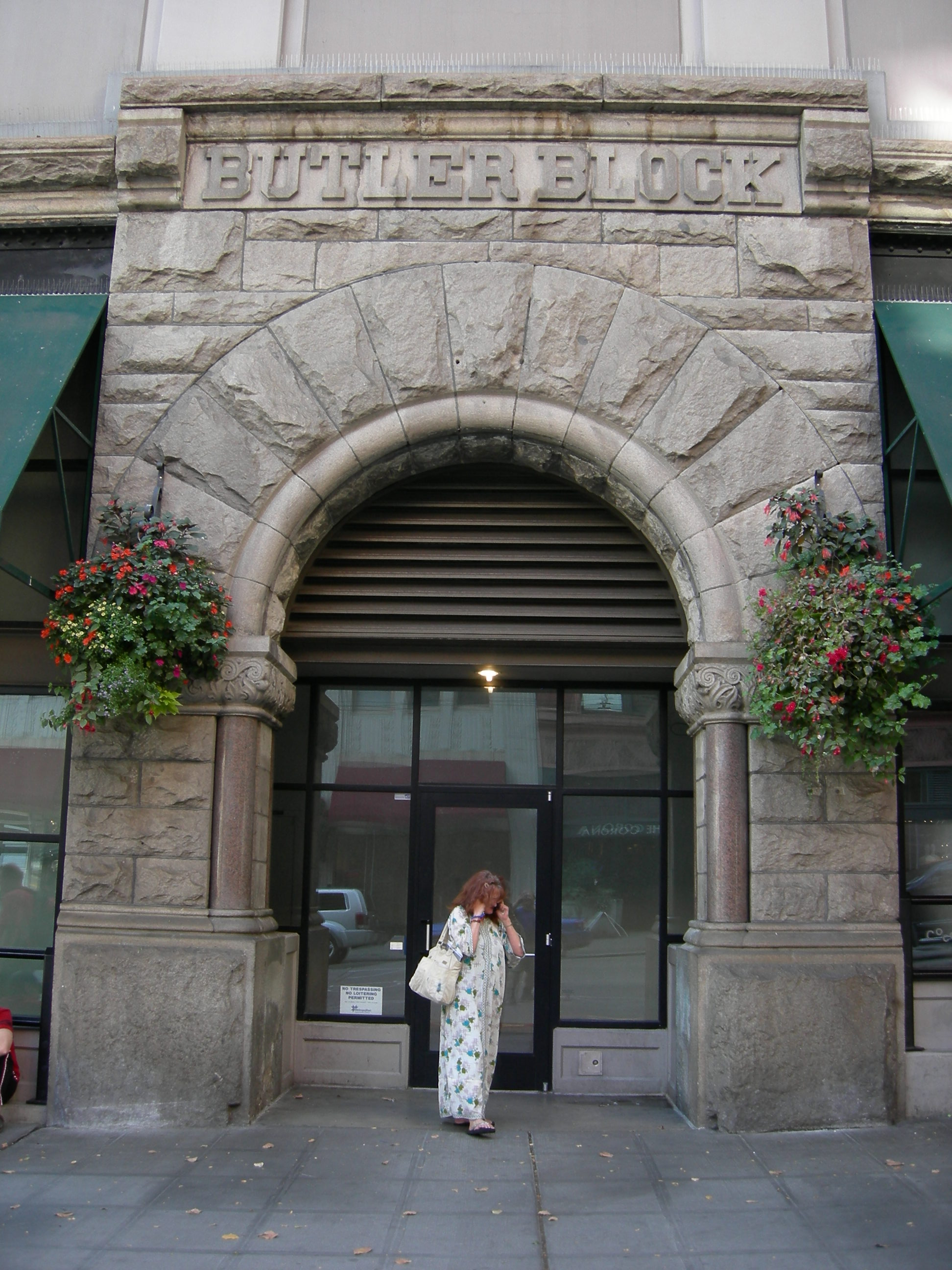 The main entrance door of the Butler Block, Seattle, Washington, USA. The upper stories of the building are gone, replaced by a multi-story car park. See [1] for a good discussion of the building.